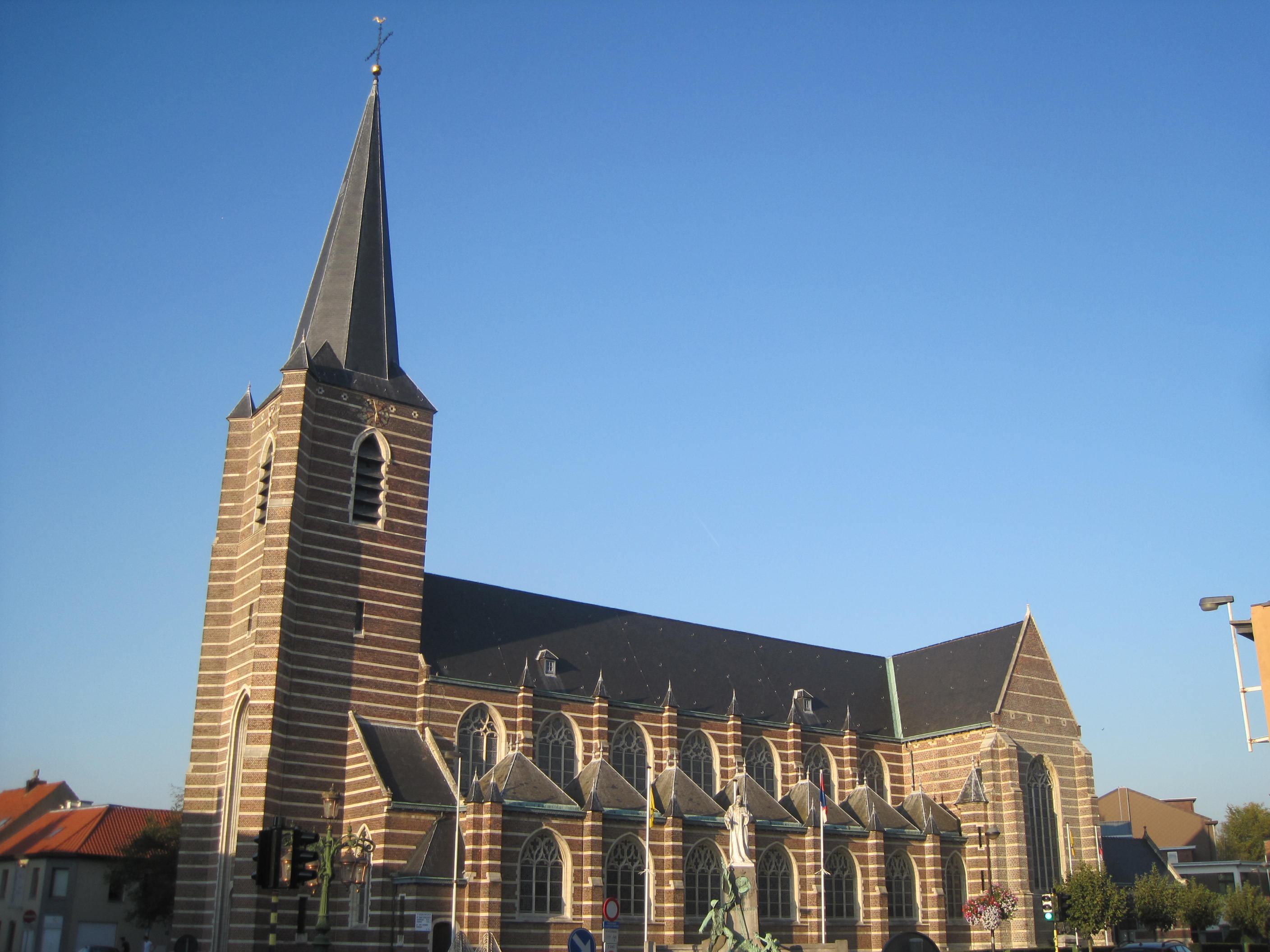 Church St. Bavo, Boechout, Belgium